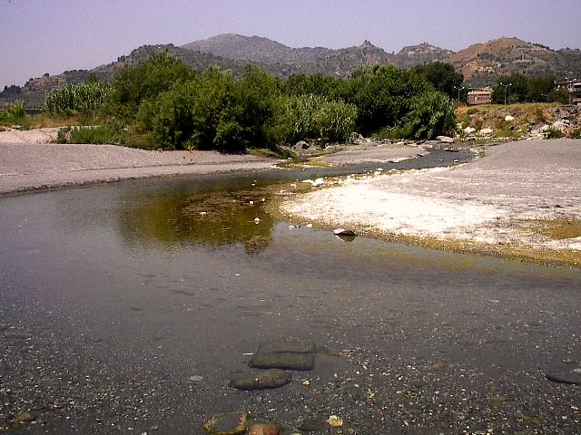 Torrente Agrò (Agrò Stream) of Santa Teresa di Riva (Messina, Sicily, Italy)